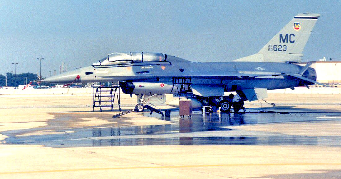 72d Tactical Fighter Training Squadron - General Dynamics F-16B Block 10B Fighting Falcon 80-0623 Retired to AMARC as FG0193 Jul 27, 1994. Still on AMARC inventory Jan 15, 2008